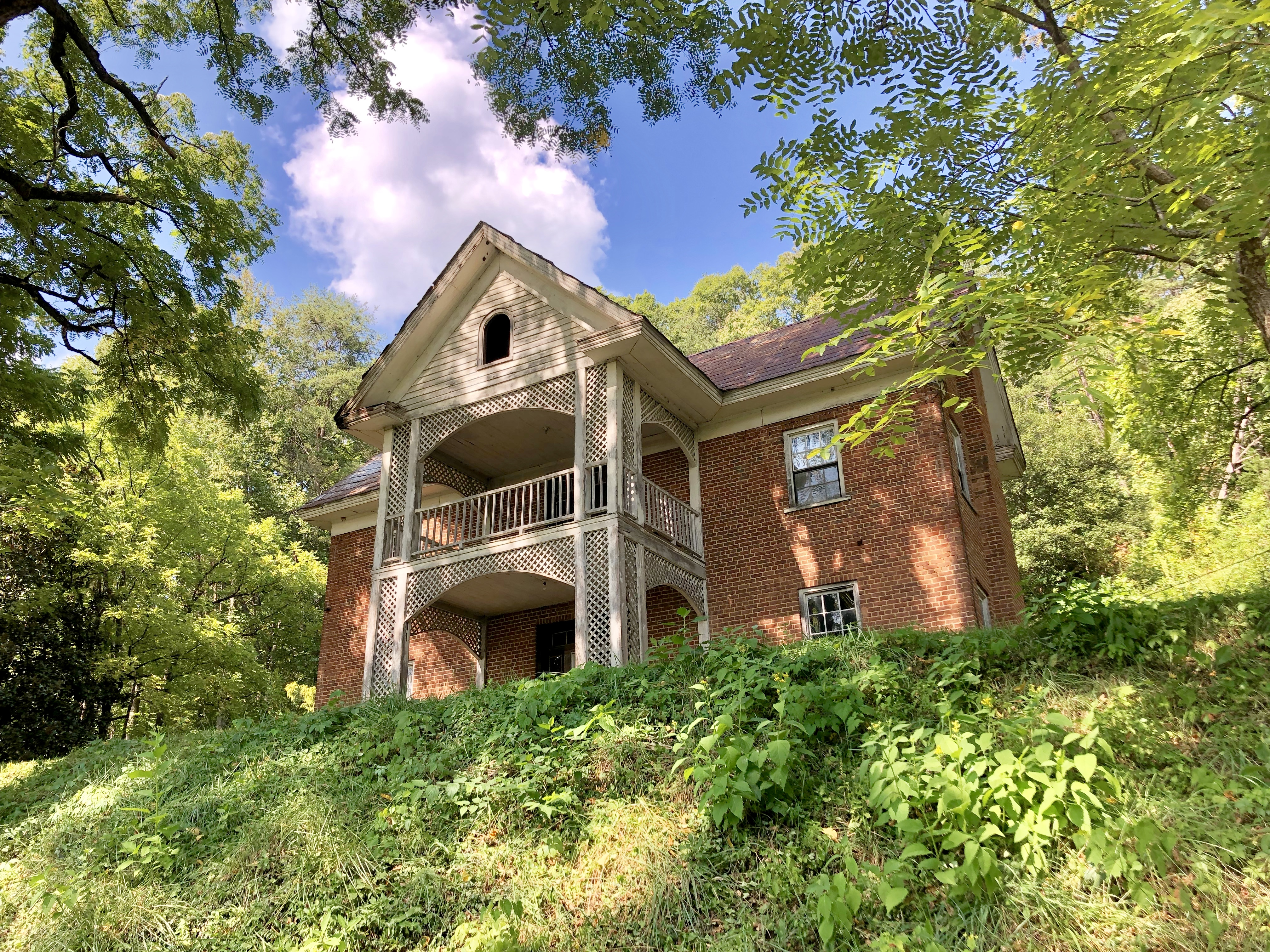 This is the Abel Hyatt House, located on Hyatt Creek Road near Ela, North Carolina, less than a half-mile from exit 69 on US Highway 74. The house was constructed in 1880 by Abel Hyatt, and is the only known 19th Century masonry house in Swain County. The structure was listed on the National Register of Historic Places in 1991.